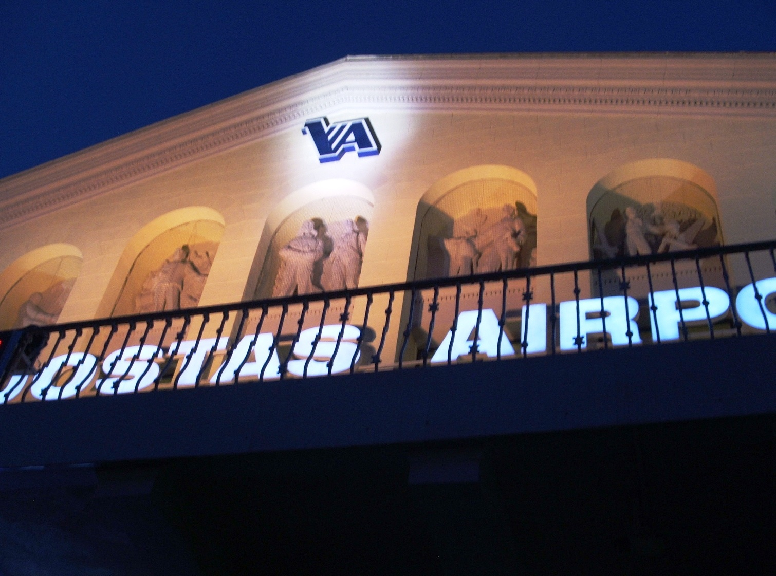 Vilnius airport terminal building.